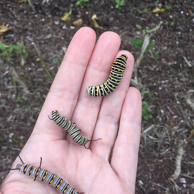 Photo courtesy of Michele Kelley.